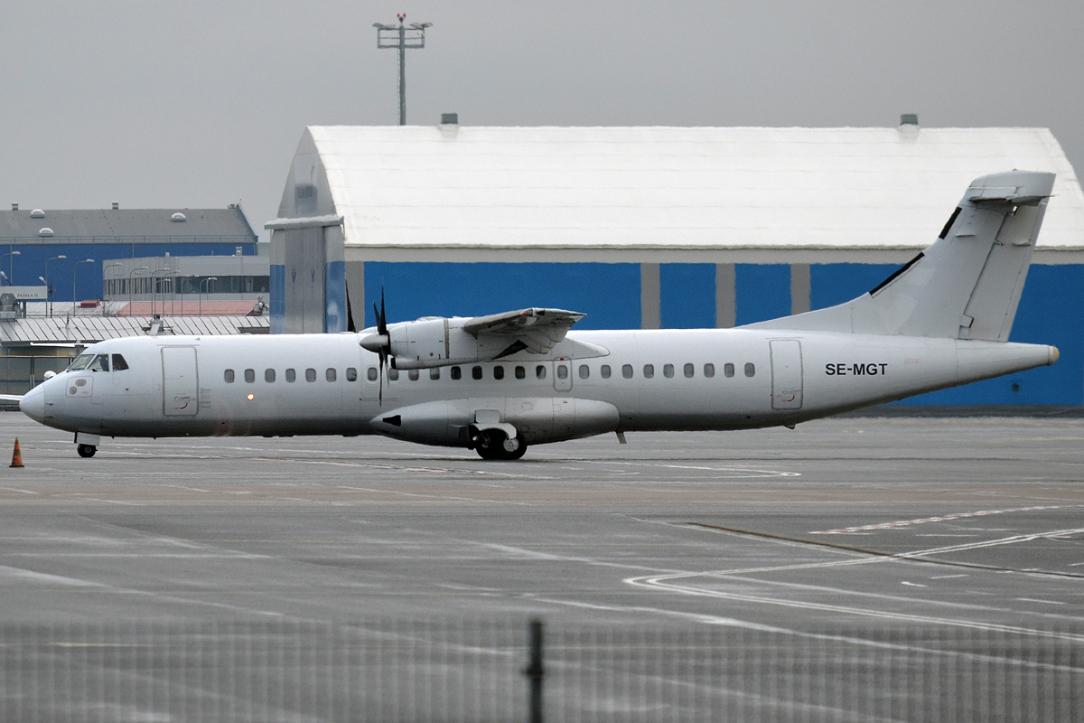 West Air Sweden, SE-MGT, ATR 72-201